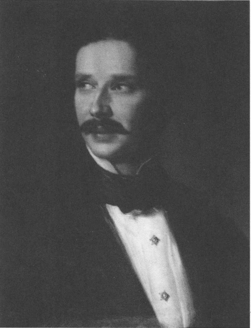 Portrait of a Young Man, probably Self-Portrait of Michał Hieronim Leszczyc-Sumiński (1820-1898)